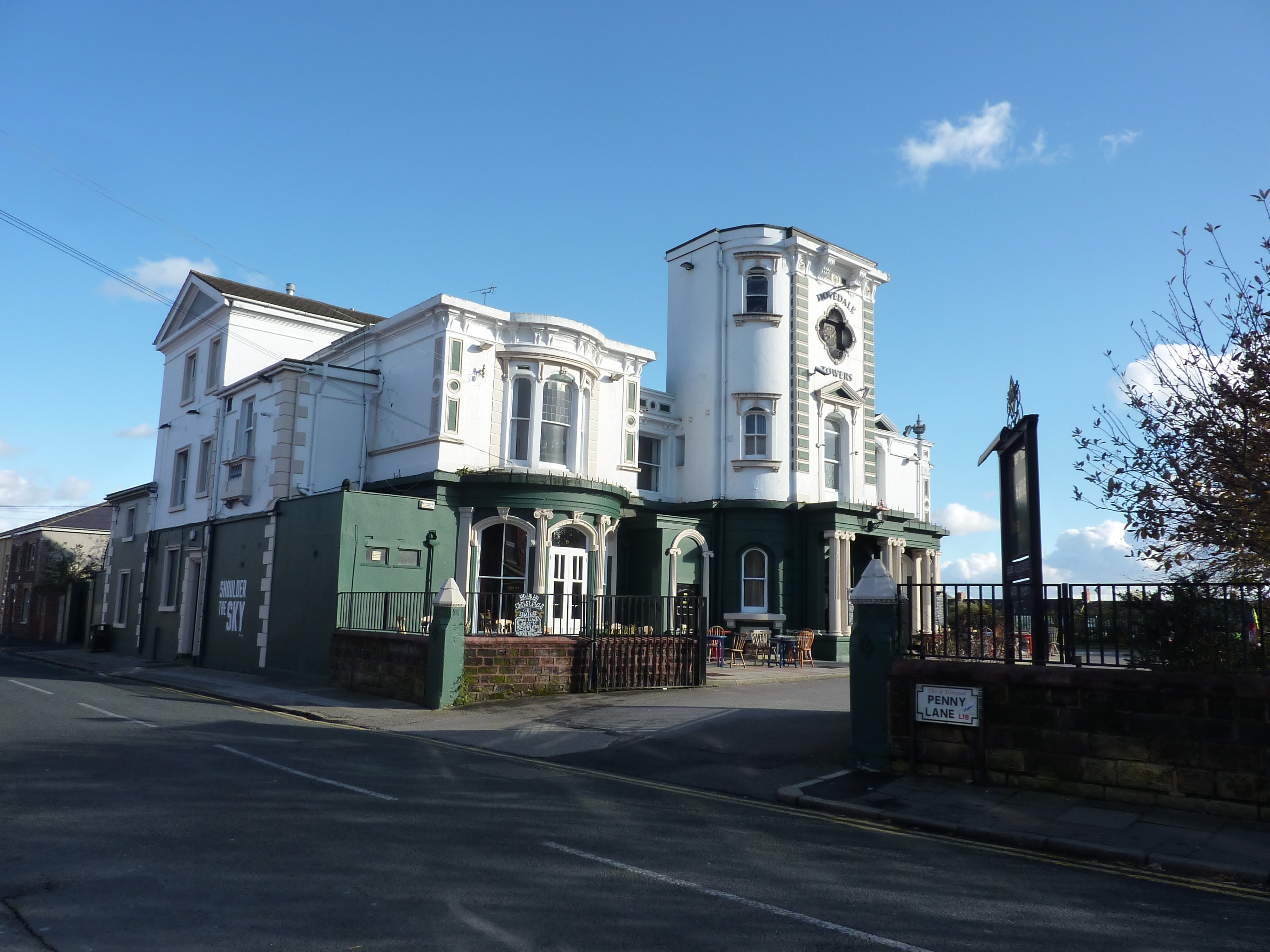 The Dovedale Towers pub on Penny Lane, Liverpool, UK, above which singer Freddie Mercury has lived at some point in the year 1969.